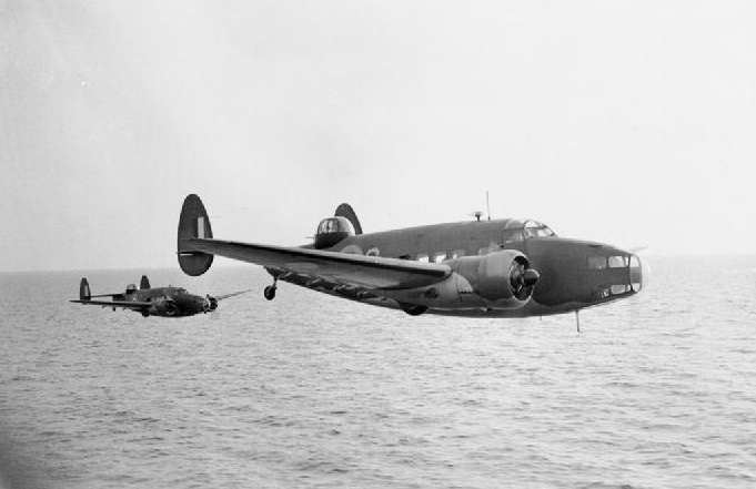 A pair of Lockheed Hudsons fly over the North Sea